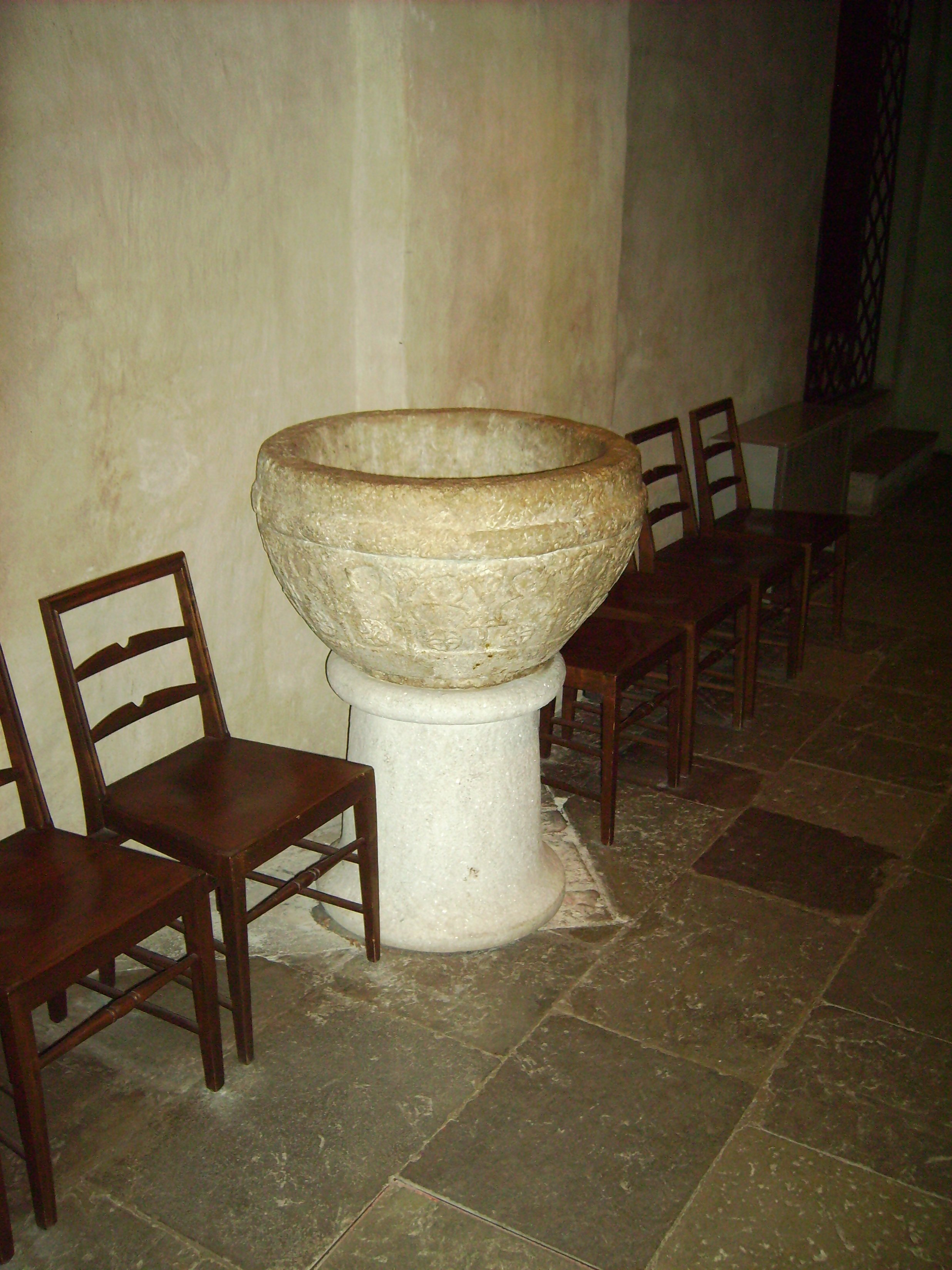 Cathedral of Åbo, Finland.